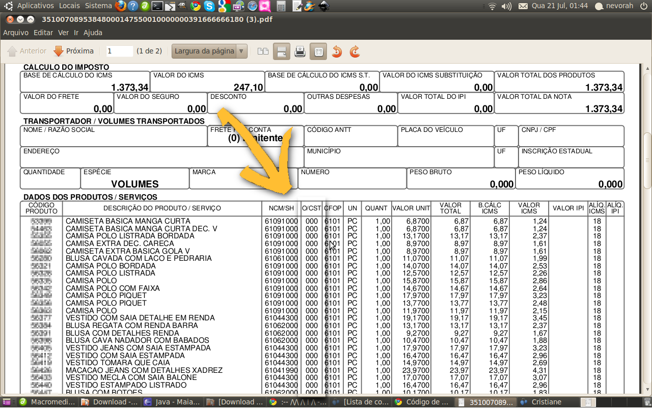 Brazilian Governamet Taxe CST